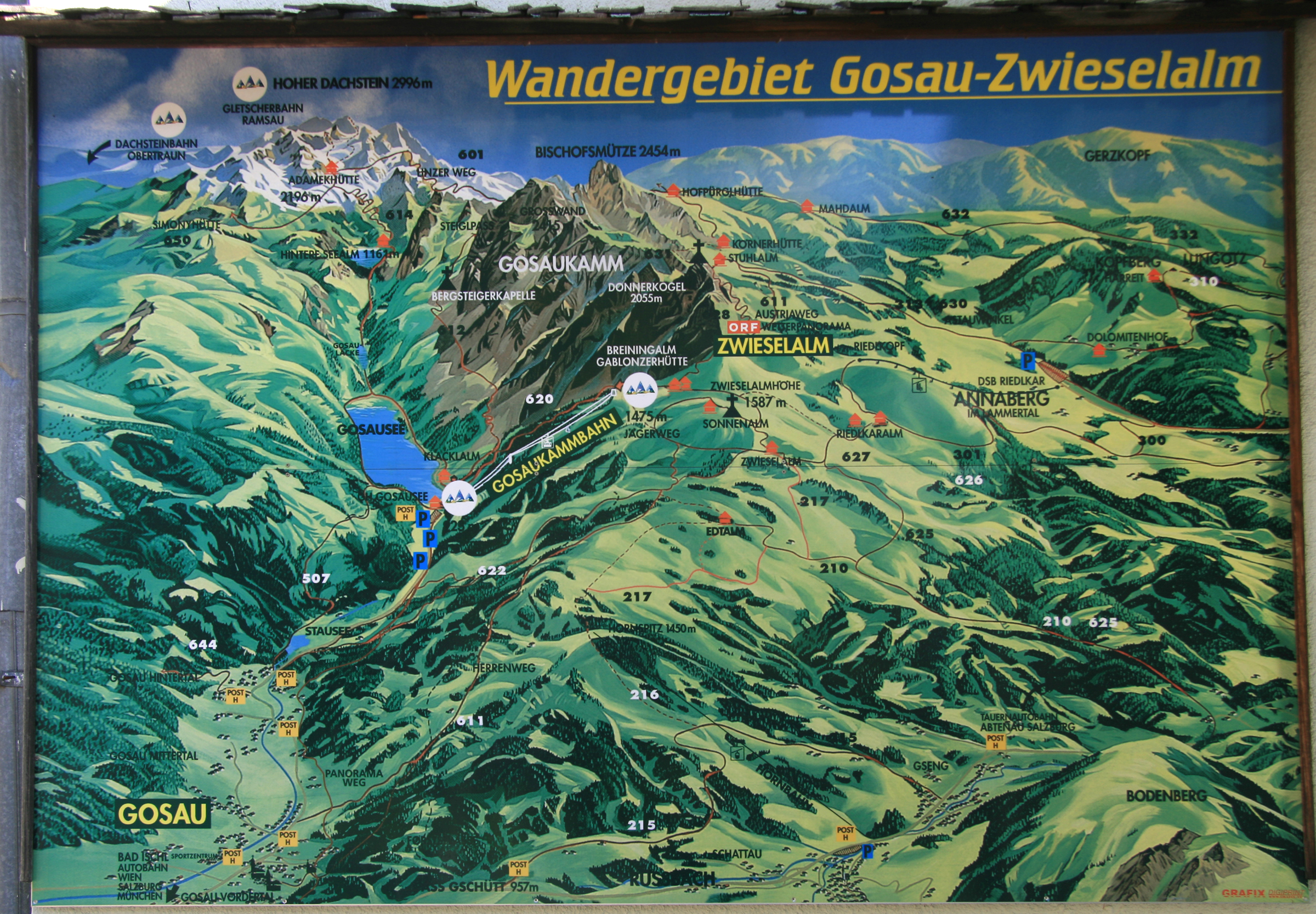 Map of region Dachstein around lake Gosausee, Upper Austria